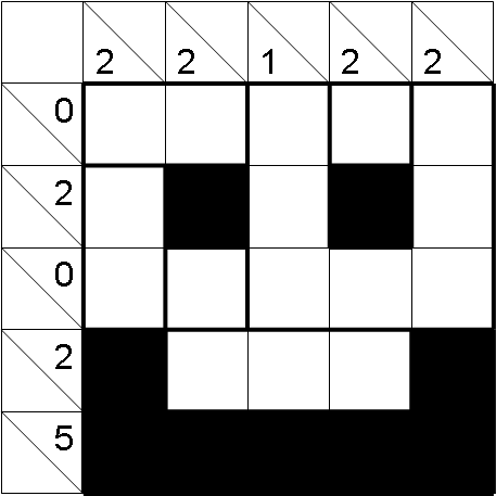 Tile paint grid solved